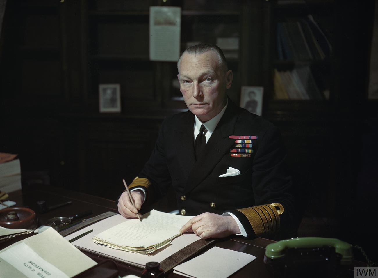 IWM caption : Portrait of Admiral of the Fleet Sir J C Tovey, GCB, KBE, DSO. Admiral Tovey served as Commander in Chief of the Home Fleet from 1940-1943, he then went on to serve as Commander in Chief Nore, as well as First and Principal Naval Aide de Campe to the King from January 1945. He is pictured sitting at his desk, most likely while serving as Commander in Chief Nore, at Chatham, Kent.